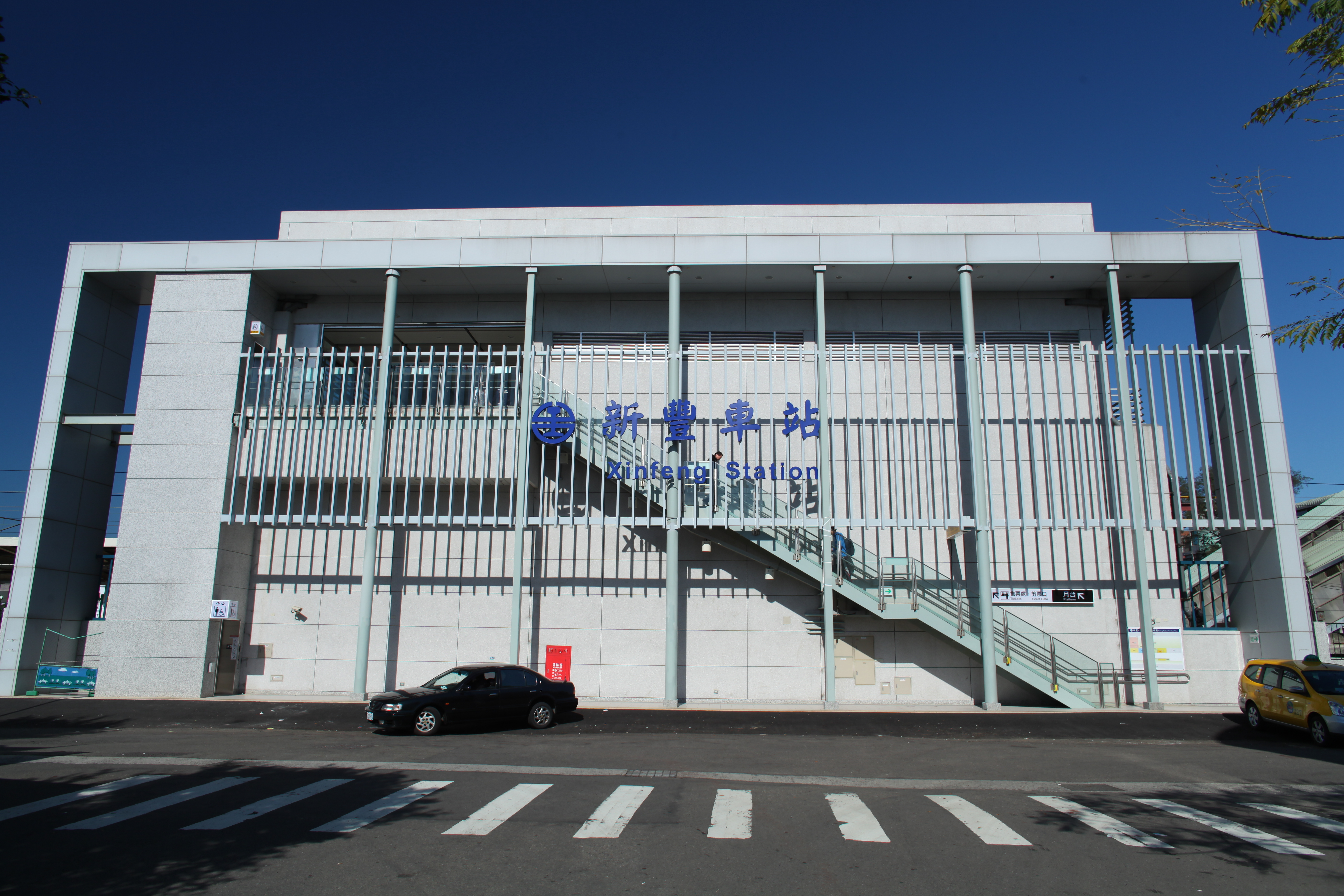 The Ziqiang Road side entrance of TRA Xinfeng station